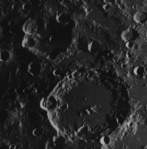 Part of the Lunar Orbiter - IV frame LO-IV-188-med cropped. Avicenna crater - top left, Nernst crater - bottom right.